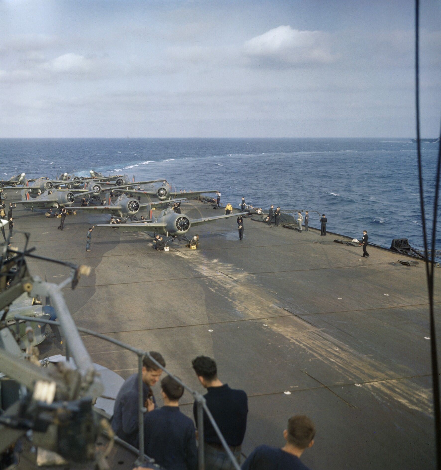 North African Operations, November 1942 Grumman Wildcat fighter aircraft and Supermarine Seafires ranged for take-off on the flight deck of HMS FORMIDABLE.